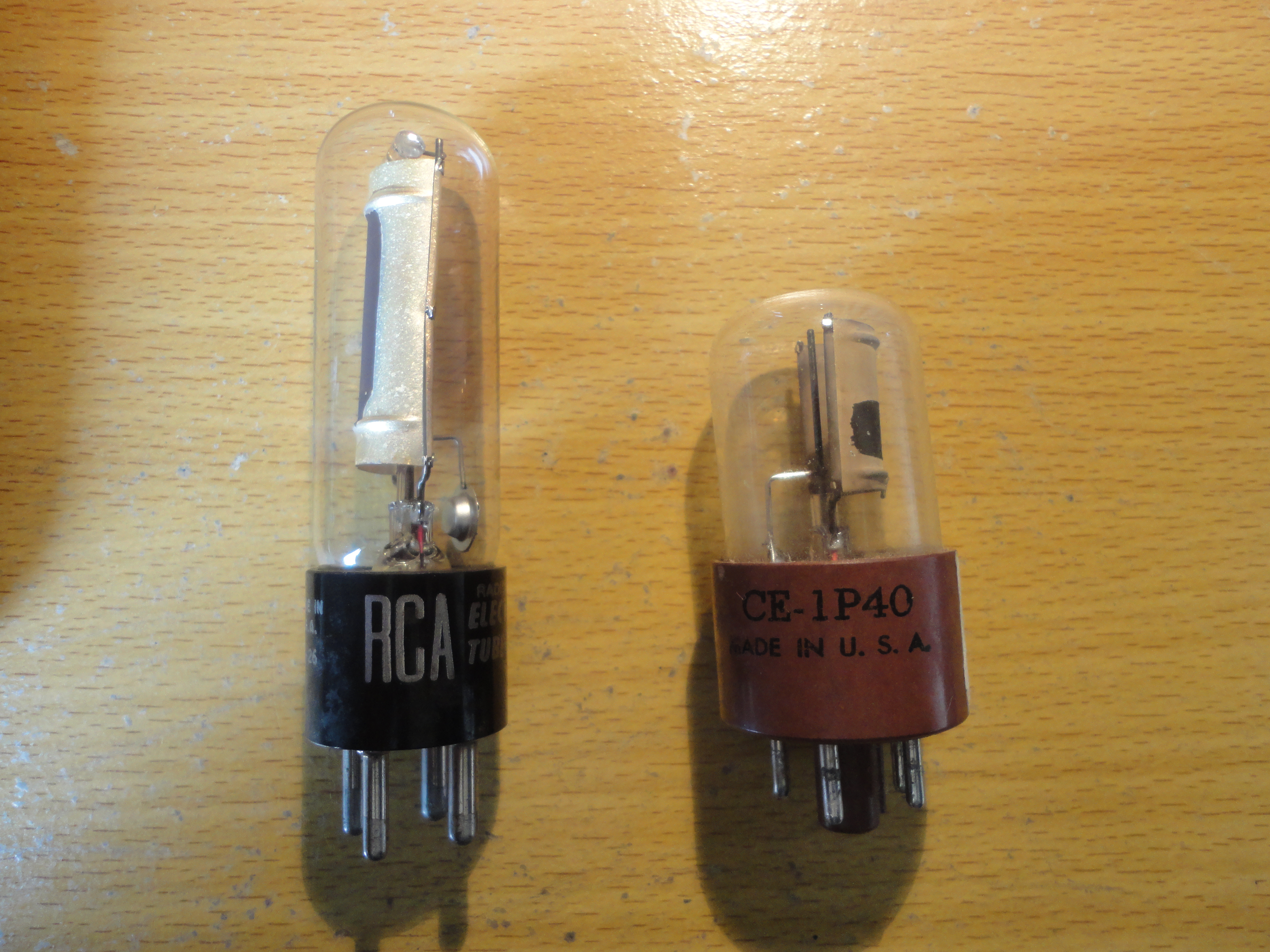 This is a picture taken by myself of two different kinds of phototubes, one RCA 918 on the left and a Cetron 1P40 on the right. This is entirely my own work.